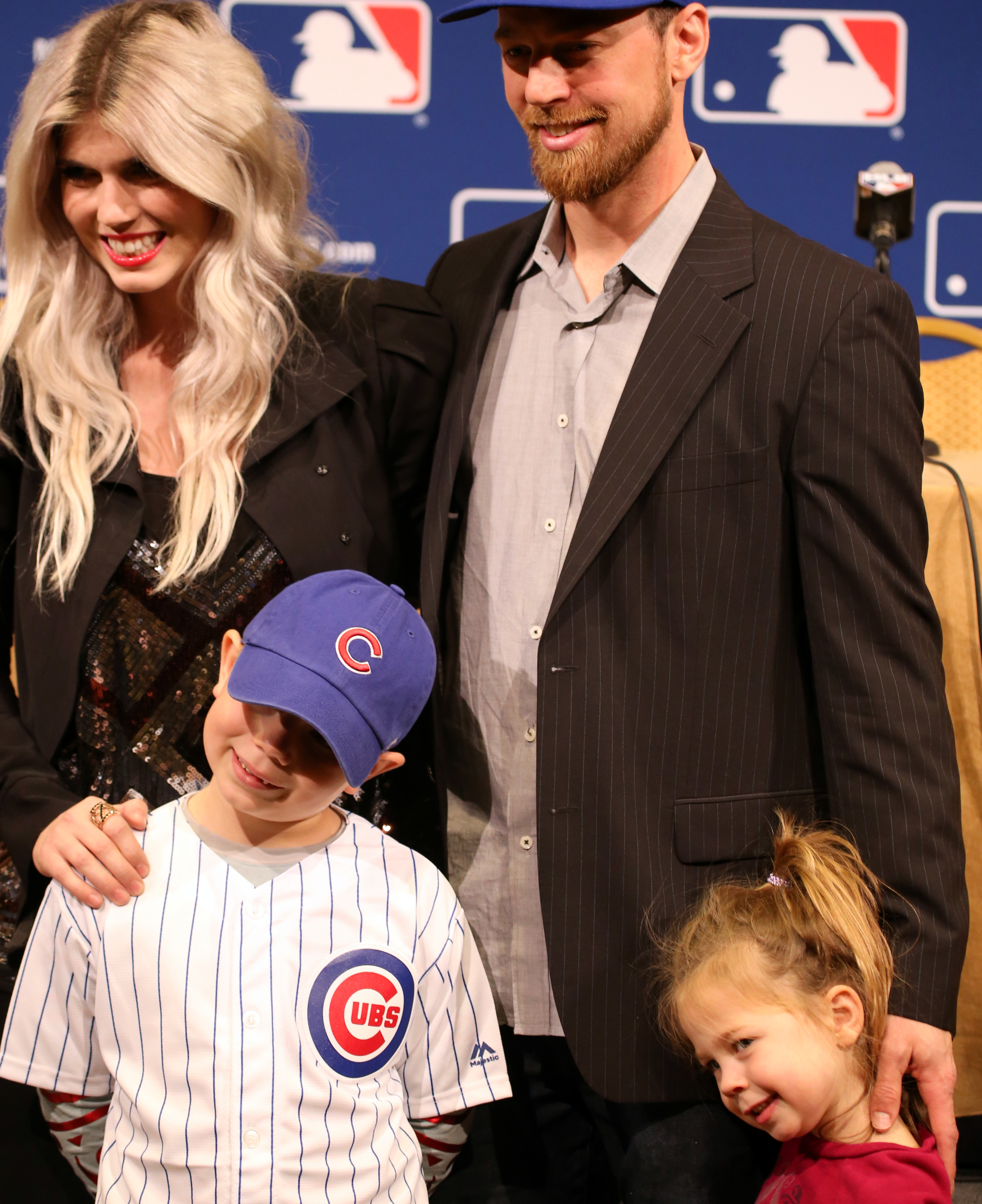 Ben Zobrist and his family.